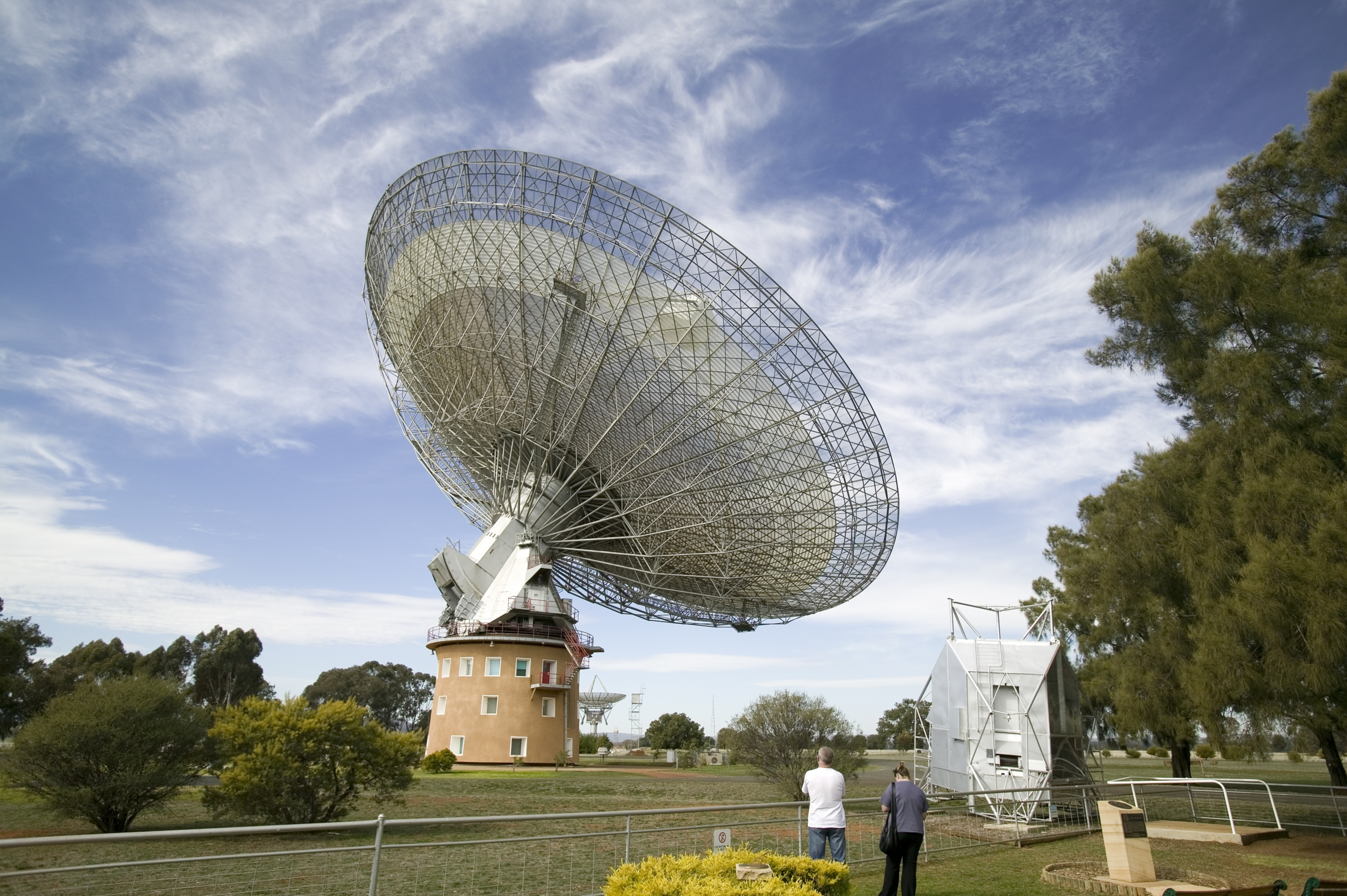 About 100 000 people visit the Parkes Observatory each year to see the telescope, which has operated since 1961. The structure in the bottom right of the image is the focus cabin, which housed the sensitive radio receivers at the telescopes focus above the dish surface until it was replaced by a much larger focus cabin in 1996. The Parkes telescope is the largest fully steerable dish radio telescope dedicated to radio astronomy in the southern hemisphere and fourth largest in the world. Astronomers from around the world use the telescope to measure naturally produced radio energy from space. On occasions it has been used to receive signals from space craft such as the Apollo 11 moon landing.